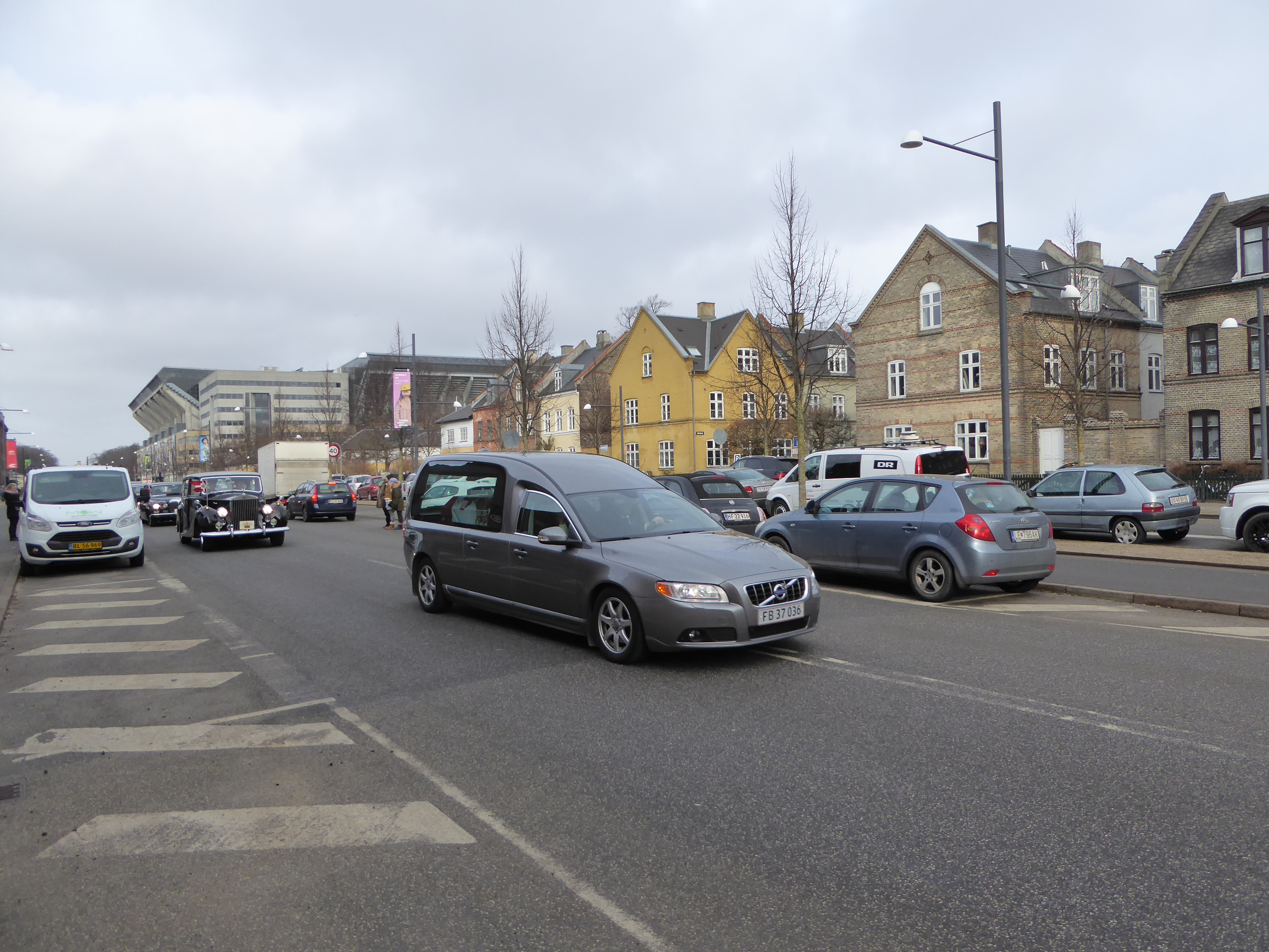 Cortege at Øster Allé in Copenhagen transporting the deceased Prince Henrik from Fredensborg to Amalienborg. The hearse with Prince Henrik.